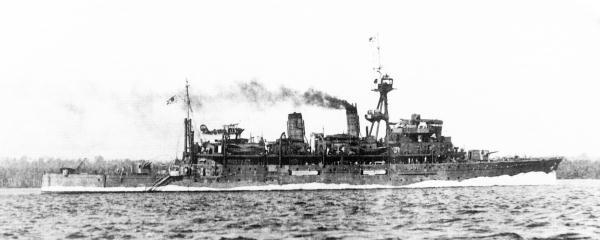 IJN Chogei,1942.